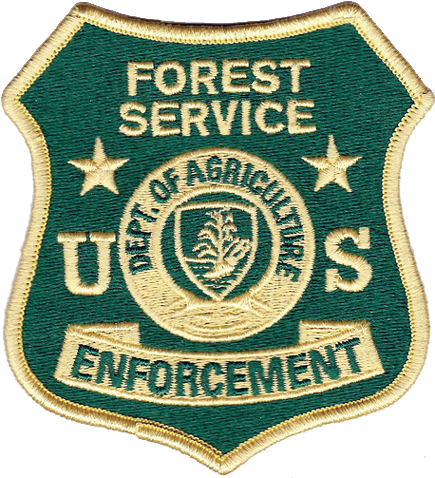 The patch of the US Department of Agriculture Forest Service Law Enforcement personnel to identify themselves to the public.